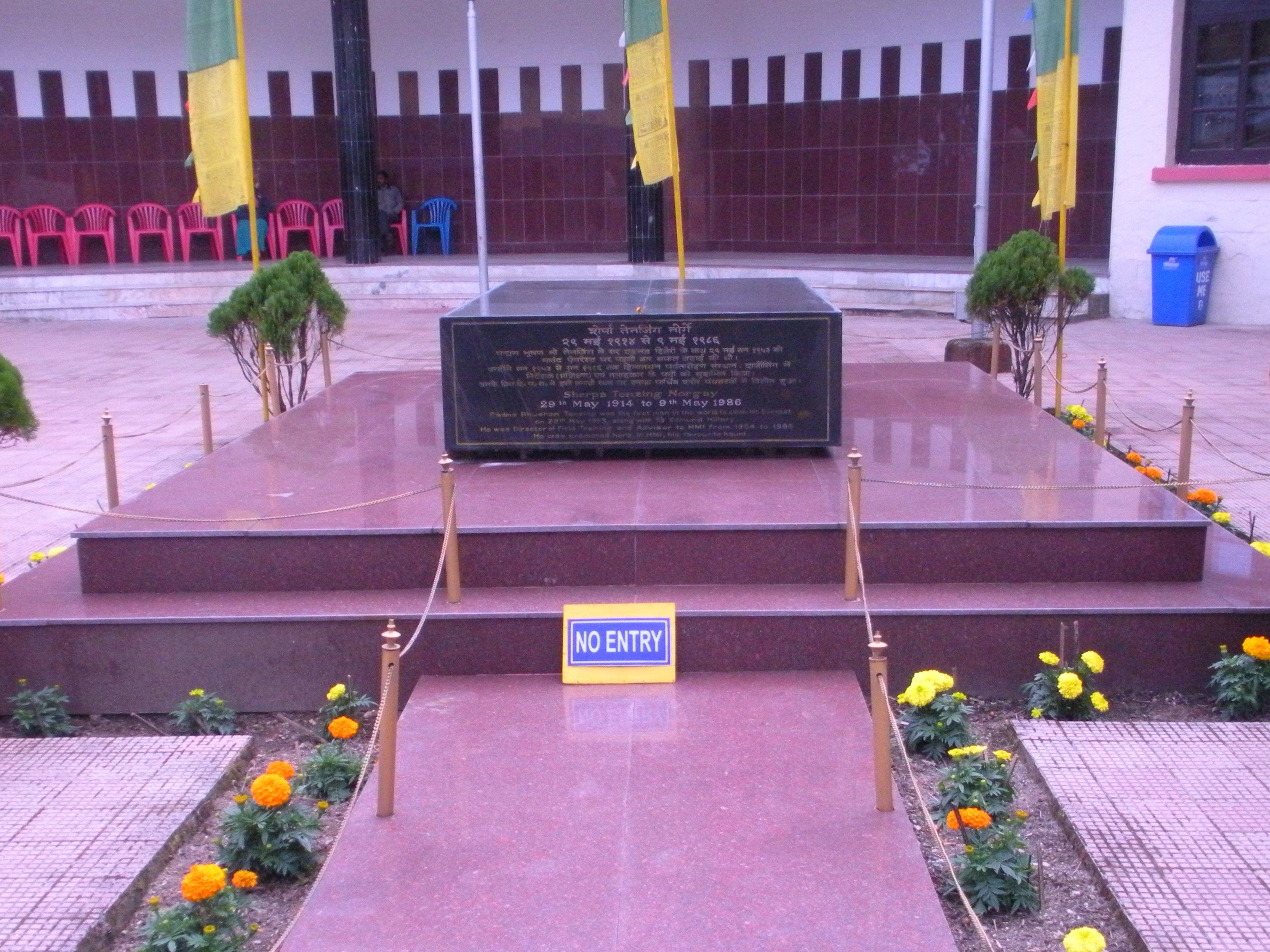 Memorial to Tenzing Norge